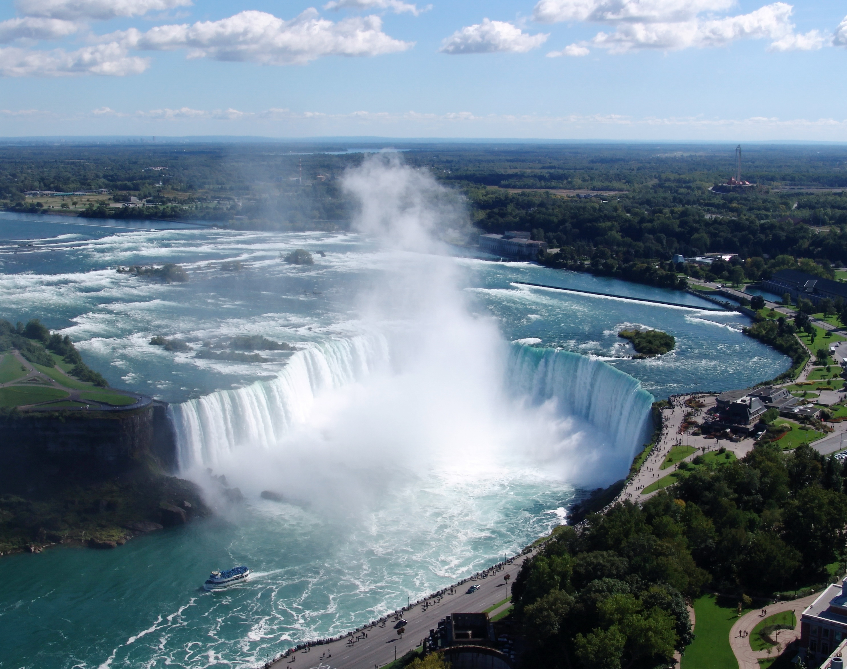 Niagara Falls: Horseshoe Falls view. More pictures...